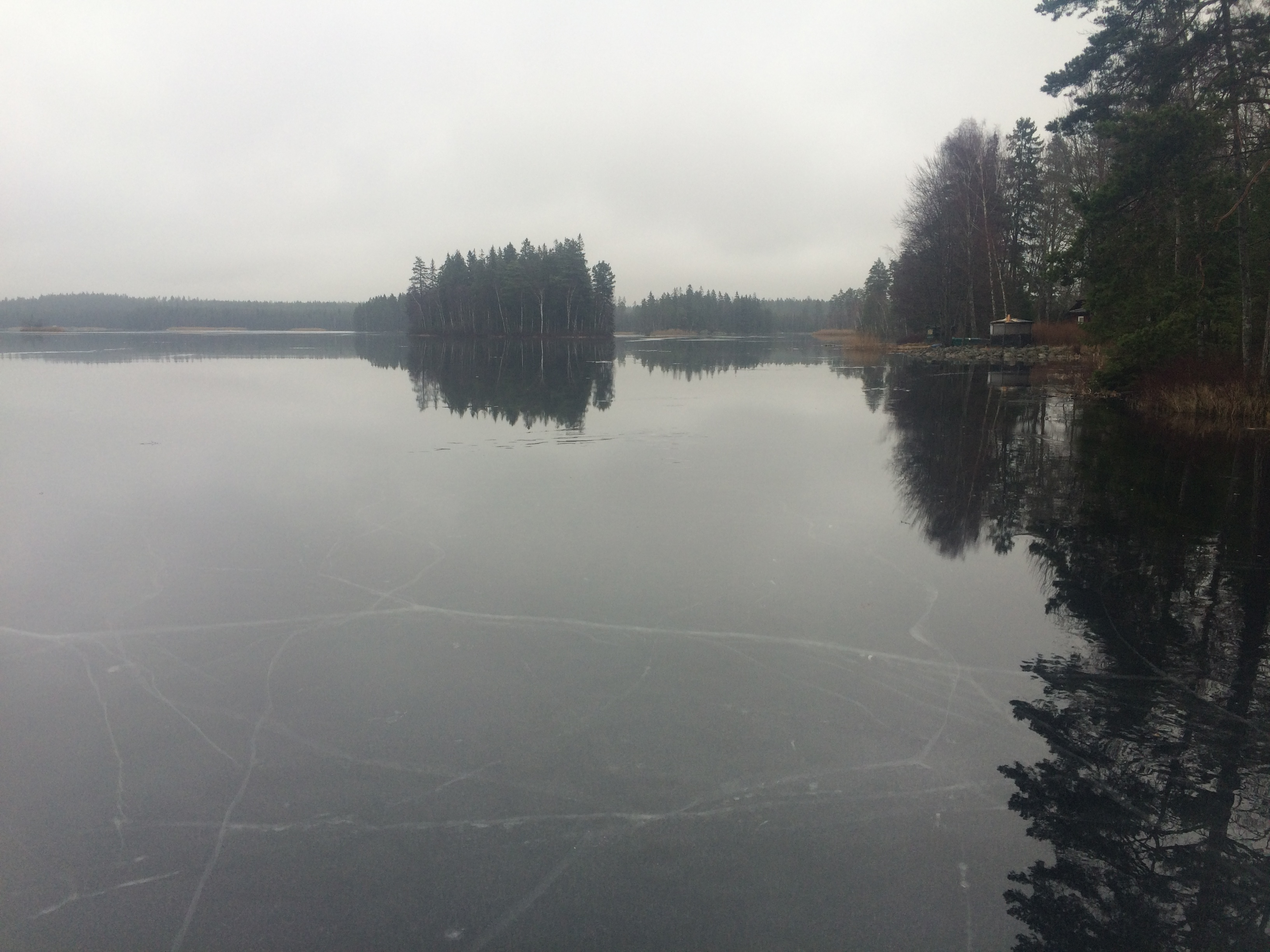 Skating on Yggersrydssjön